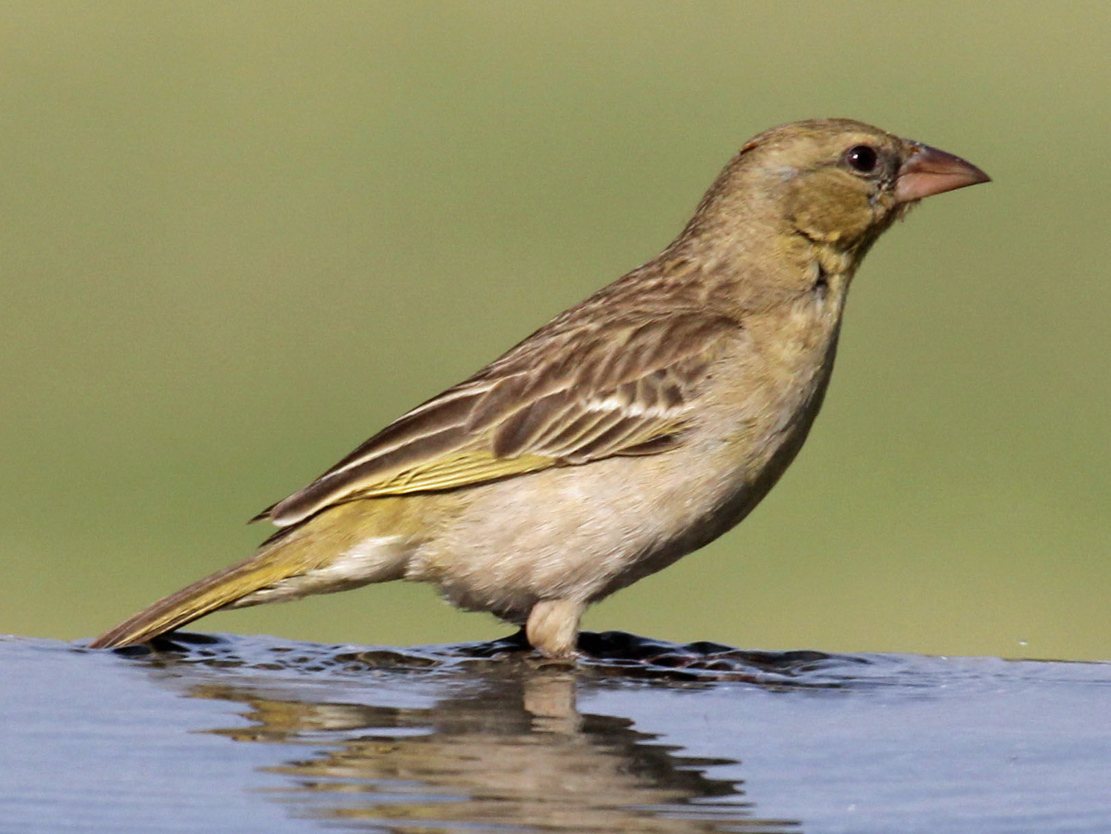 Female Southern Masked Weaver (Ploceus velatus) at Johannesburg